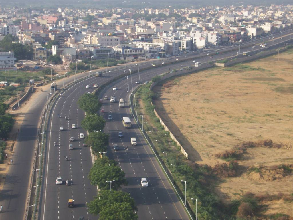 Delhi-Gurgaon stretch of National Highway 8 (NH-8) has been modified into an eight lane expressway. This has increased speed of traffic between Delhi and its suburb. The expressway provides speedy access to Indira Gandhi International airport. The national highway leads upto Mumbai in West.